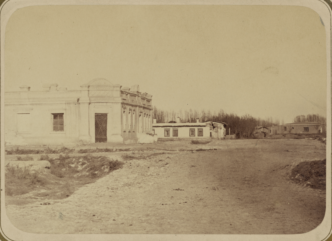 This photograph is from the ethnographical part of Turkestan Album, a comprehensive visual survey of Central Asia undertaken after imperial Russia assumed control of the region in the 1860s. Commissioned by General Konstantin Petrovich von Kaufman (1818–82), the first governor-general of Russian Turkestan, the album is in four parts spanning six volumes: “Archaeological Part” (two volumes); “Ethnographic Part” (two volumes); “Trades Part” (one volume); and “Historical Part” (one volume). The principal compiler was Russian Orientalist Aleksandr L. Kun, who was assisted by Nikolai V. Bogaevskii. The album contains some 1,200 photographs, along with architectural plans, watercolor drawings, and maps. The “Ethnographic Part” includes 491 individual photographs on 163 plates. The photographs show individuals representing the different peoples of the region (Plates 1–33); daily life and rituals (Plates 34–91); and views of villages and cities, street vendors, and commercial activities (Plates 92–163). Ethnographic photographs; Photographic surveys; Russians; Settlements